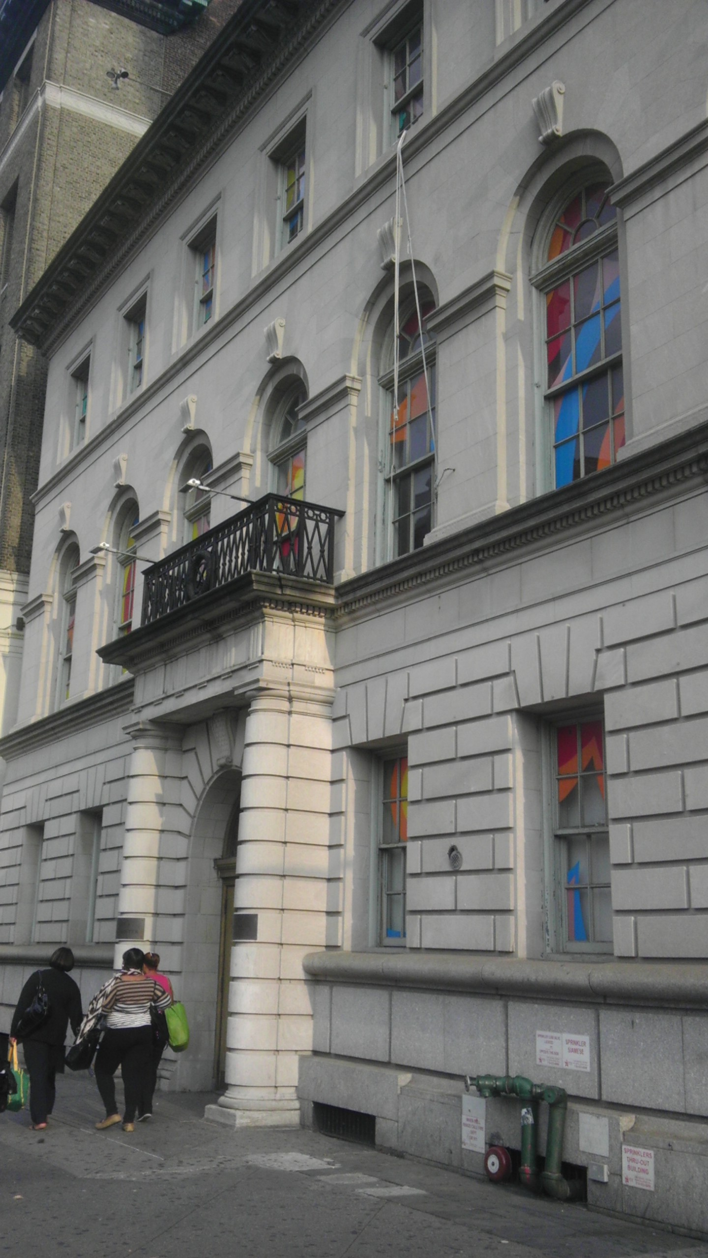 Looking east at Queens Arts Center, formerly Office of the Register